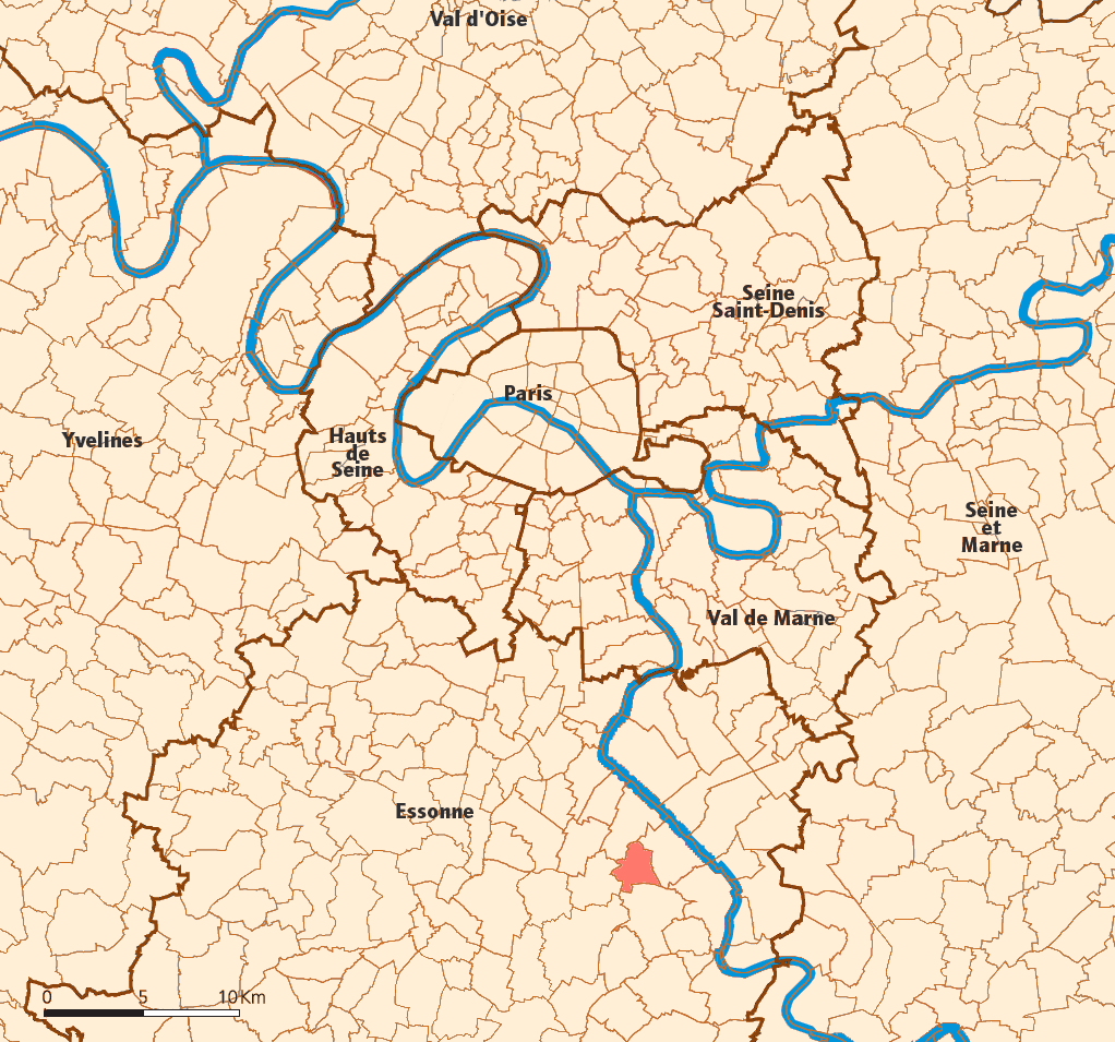 Created map myself.